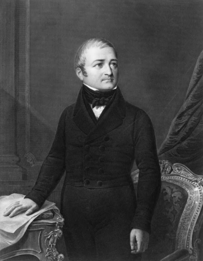 French politician and historian Adolphe Thiers (1797-1877) by Luigi Calamatta (1801-1868)